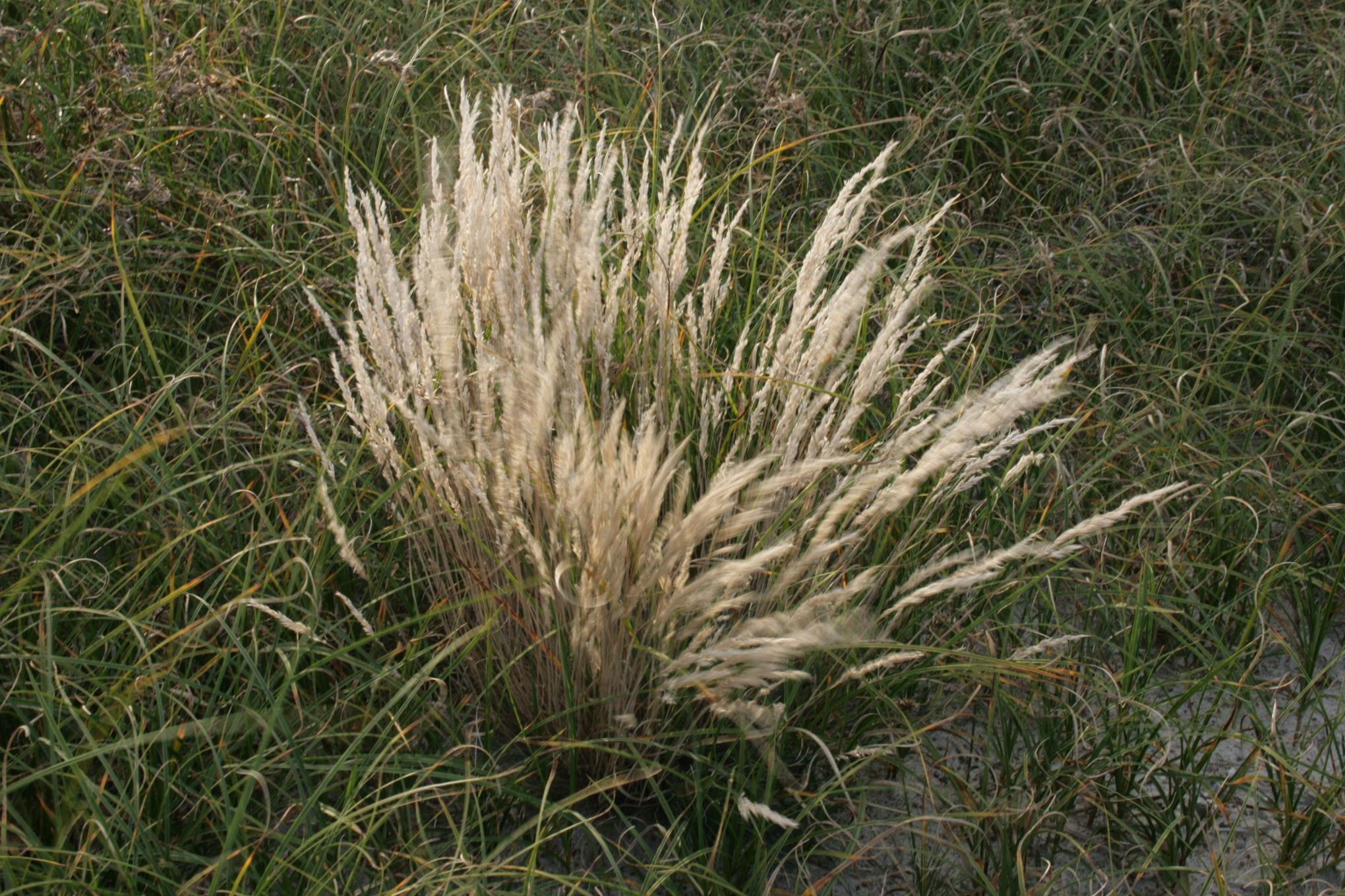 Nardus stricta: Habitus